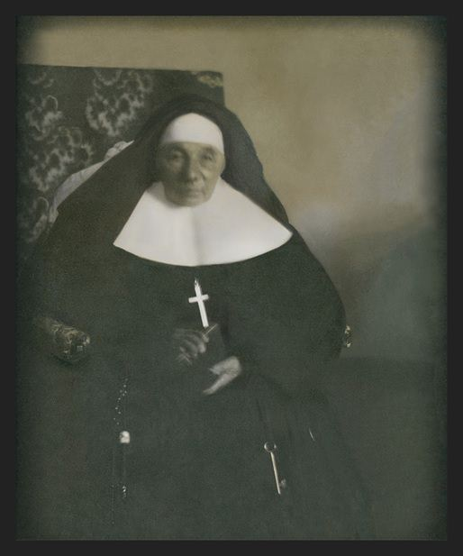 Restored picture of Rosalie Cadron-Jetté